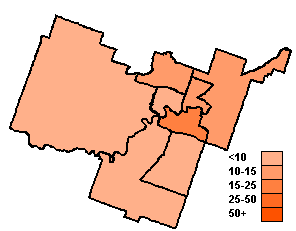 Map made by uploader (User:Earl Andrew); see [1] (question about source) and [2] (response).